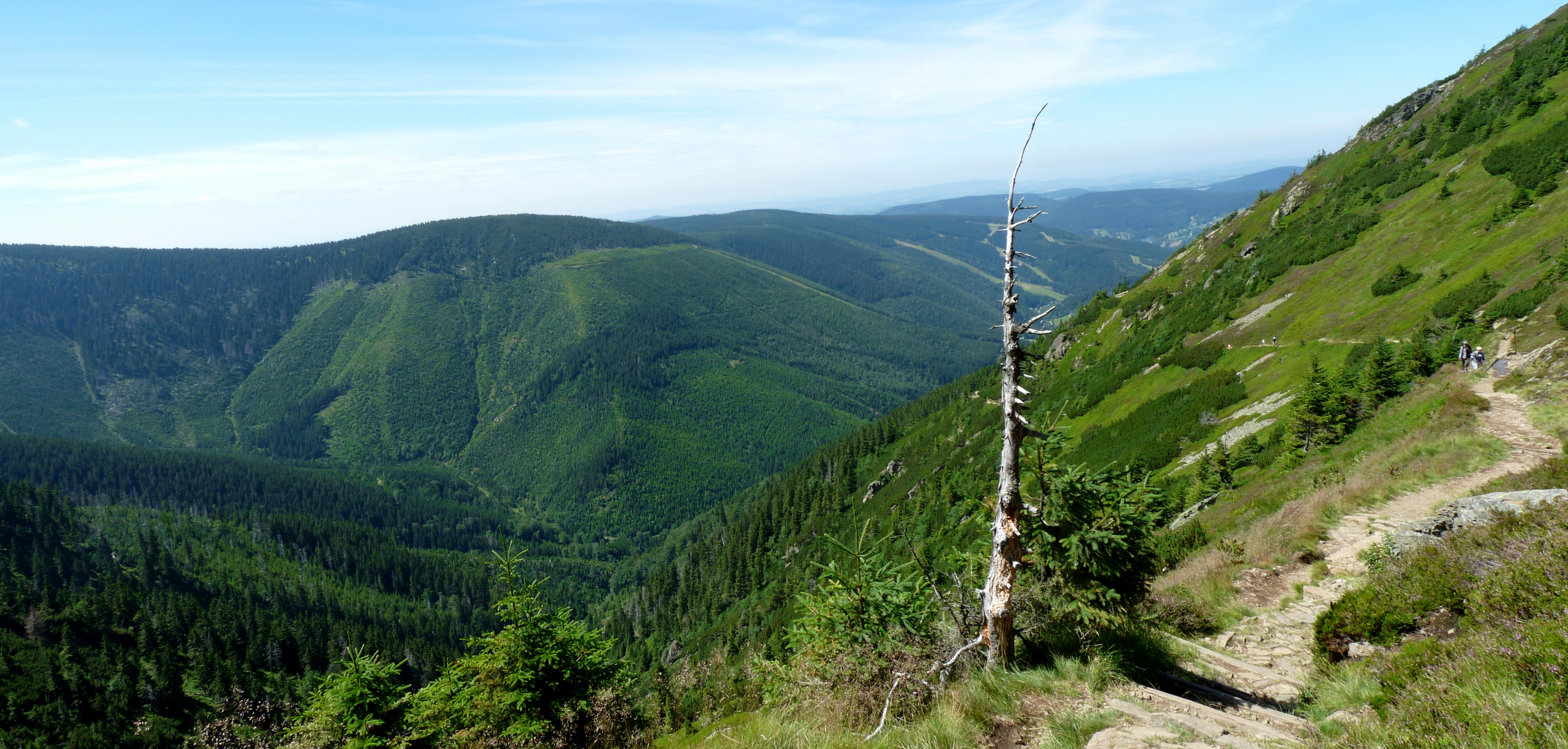 Kozí hřbety in the Giant Mountains, Czech Republic.